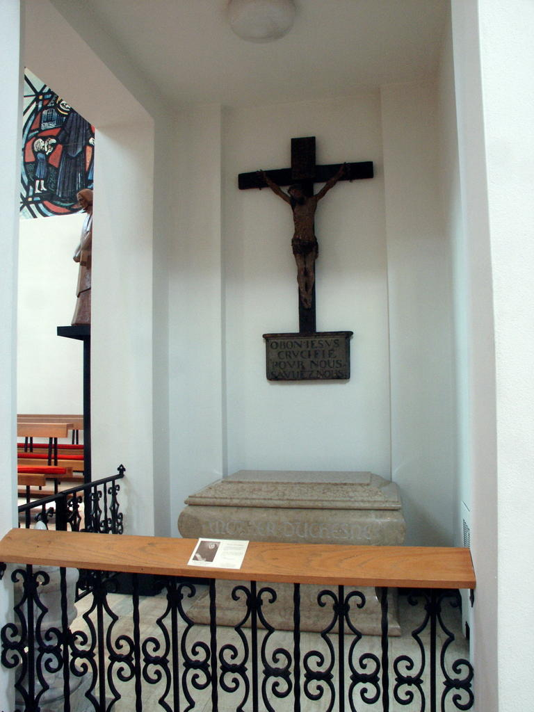 Grave of Mother Duchesne, in the Shrine of St. Philippine Duchesne, St. Charles, Missouri